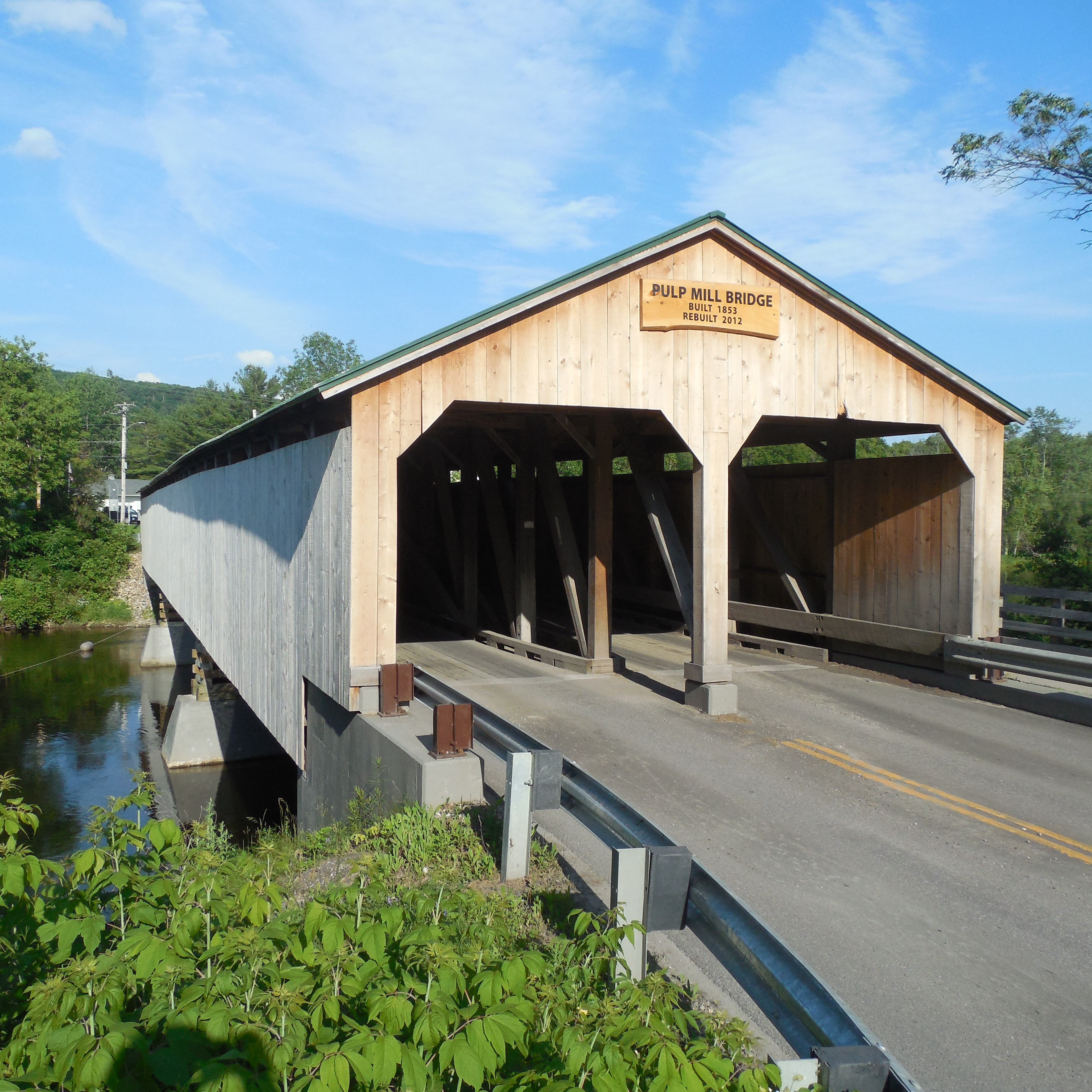 Pulp Mill Bridge looking east from Weybridge, Vermont